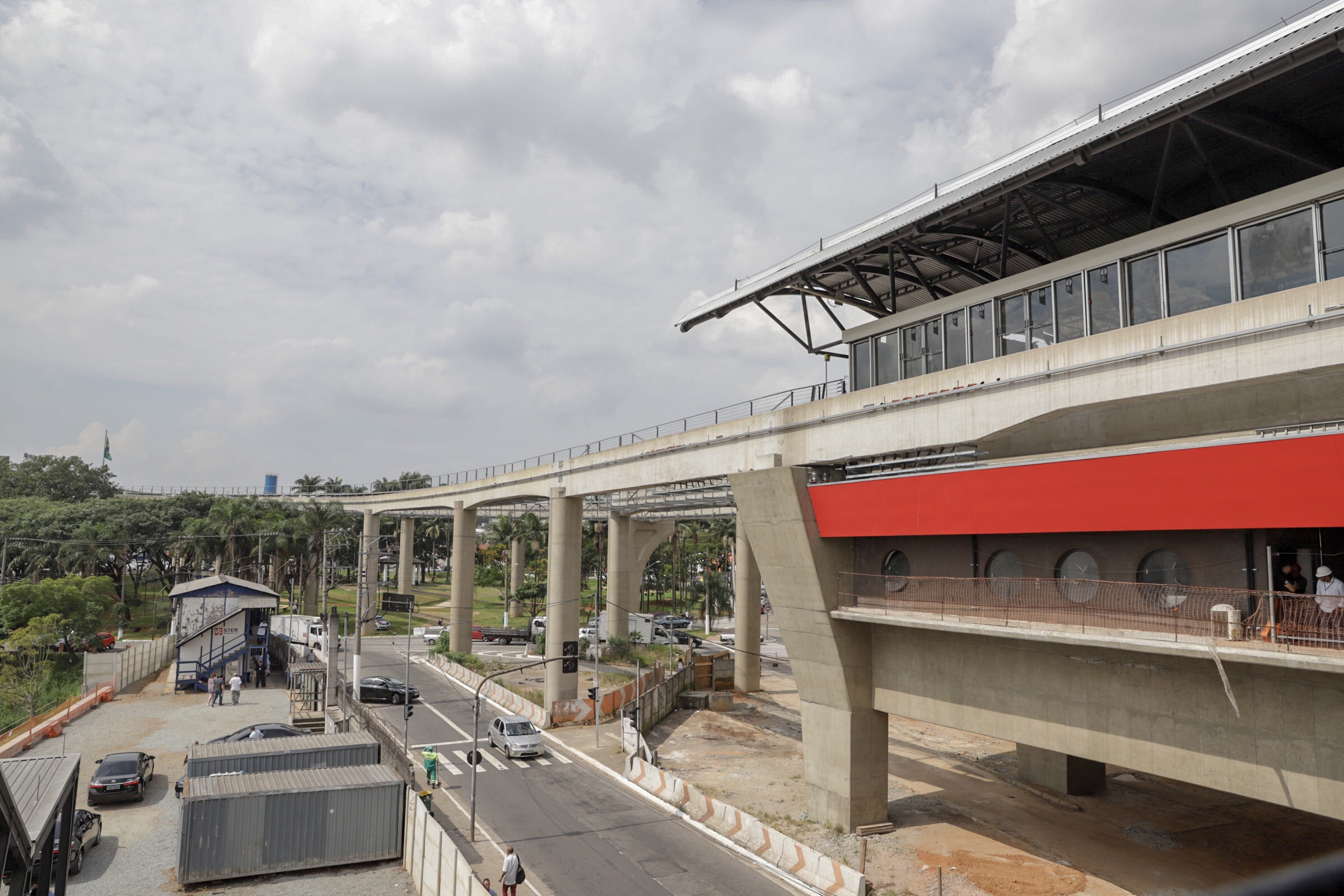 O Governador do Estado de São Paulo, João Doria, participa de visita Técnica às Obras de Retomada das Estações do Monotrilho Data: 22/04/2019 Local: São Paulo- SP. Foto: Governo do Estado de São Paulo